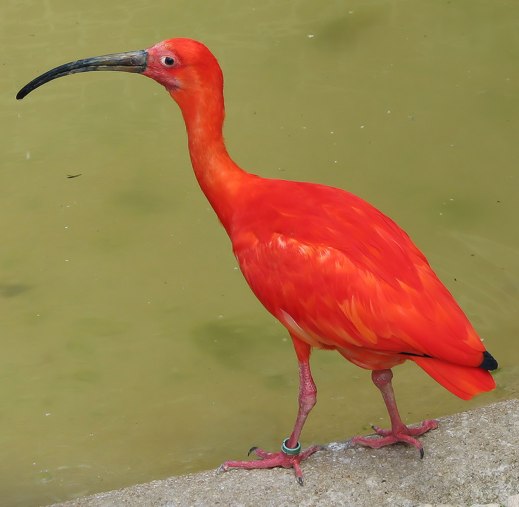 Scarlet Ibis Eudocimus ruber at the Cotswold Wildlife Park, Oxfordshire, England.